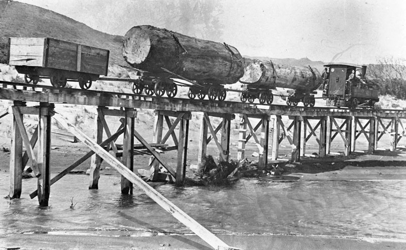 File Created by: New Zealand Micrographic Services Ltd. Date Created: 2008 Waitakere Library & Information Services Engine A196 and load on beach trestle tramway. Fred Tapp, the engine driver said instructions were that only one log was to be pulled by the engine at a time but he mostly took two when conditions were right. (Dry weather). The box wagon at the back was used to carry wood for the steam engine driving the hauler at the top of the Anawhata incline. (Source: Jack Diamond). Alexander Turnbull Library, National Library of New Zealand, Te Puna Matauranga o Aotearoa, ref. no. APG-1087-1/2-G